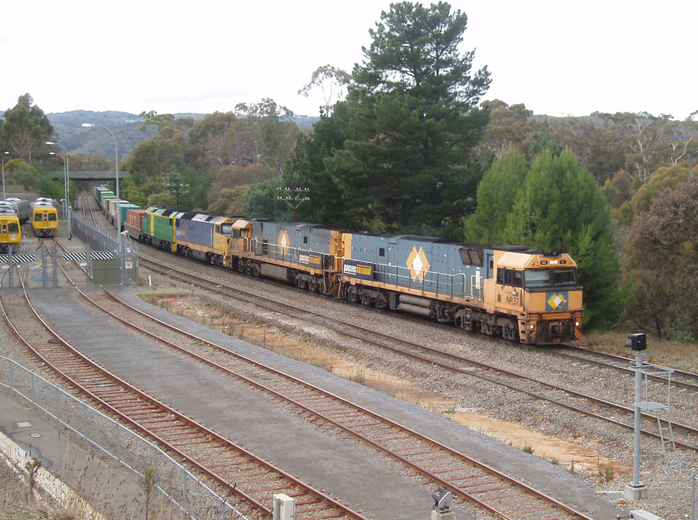 Pacific National Melbourne to Perth freight (train no. 6MP5) at Belair, South Australia on 25 June 2005. Locomotives NR37, NR6, DL46, DL40.